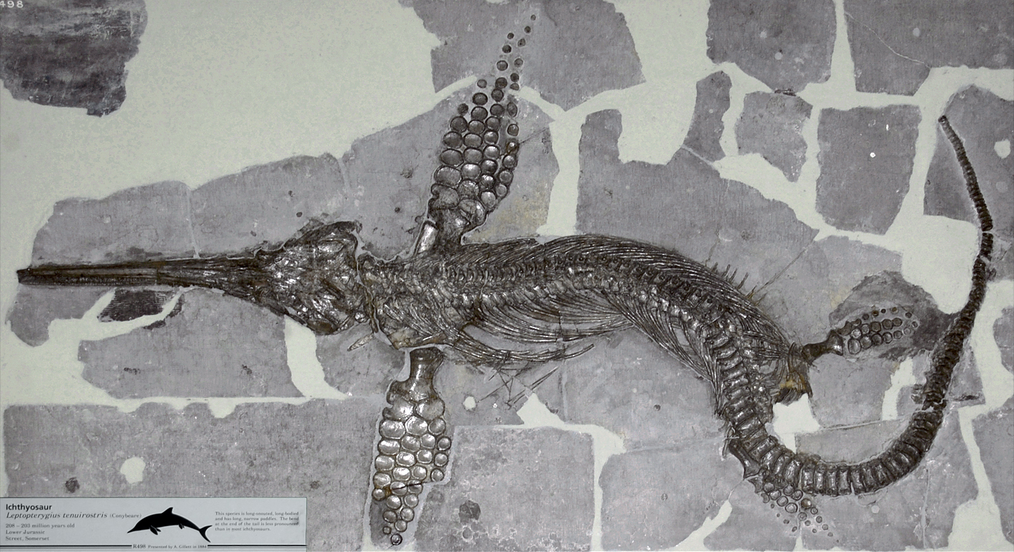 Leptopterygius NHM